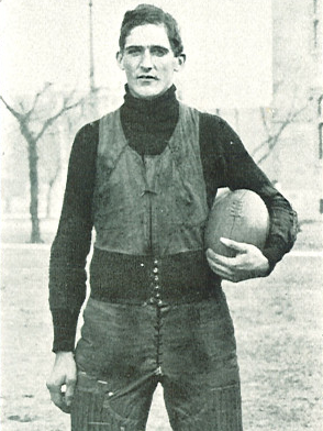 Photograph of Mark Catlin